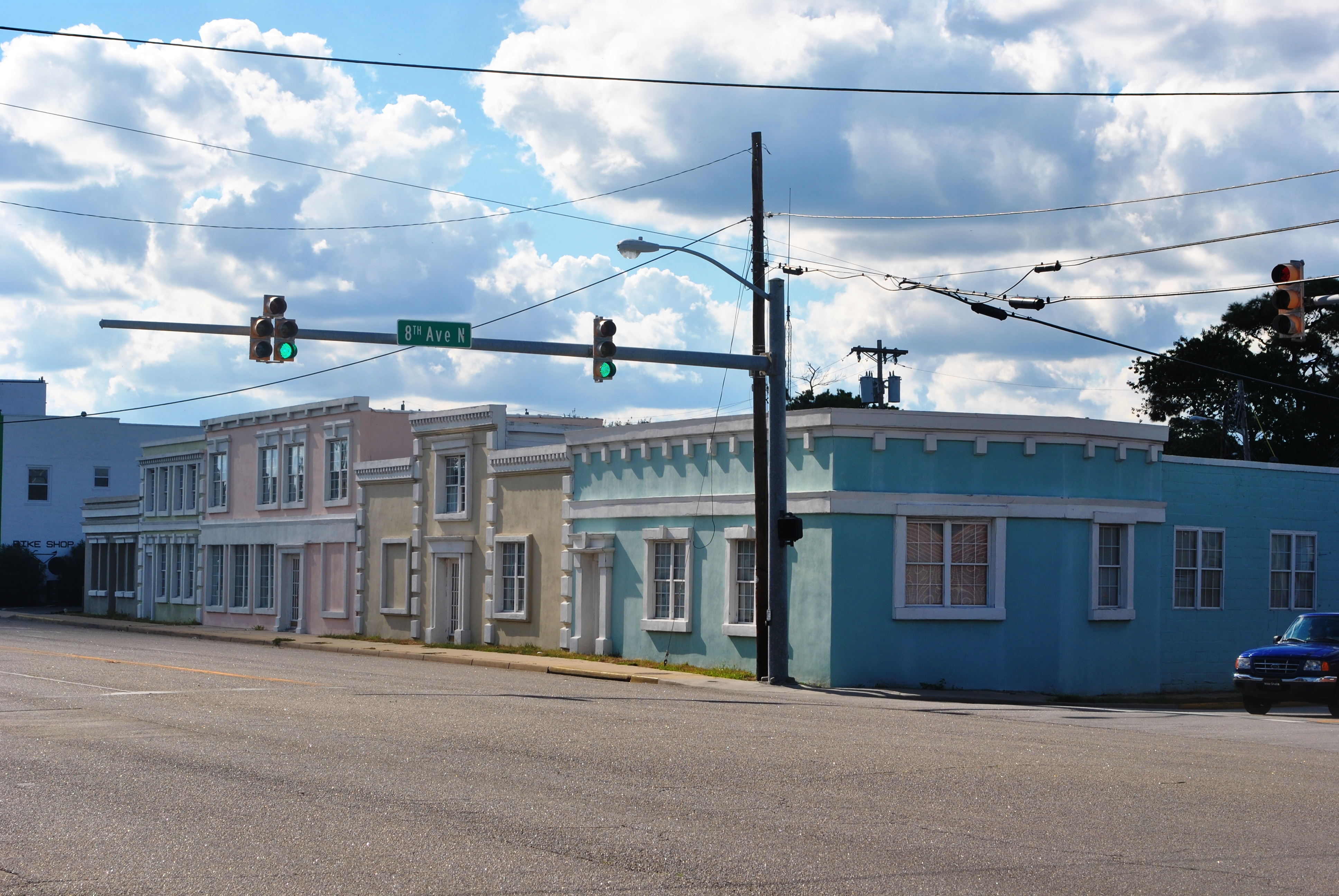 Myrtle Beach Atlantic Coast Line Railroad Station